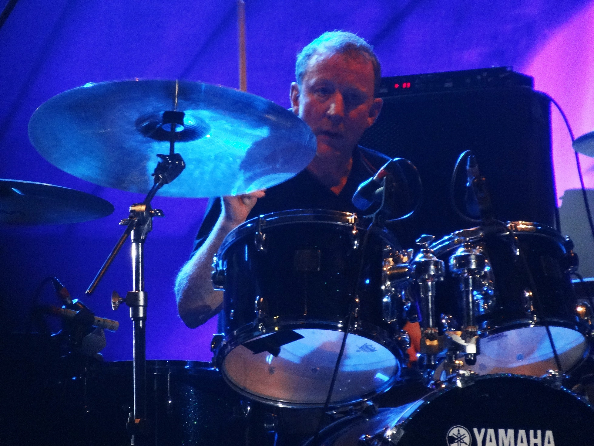 Blur 29.07.2013 in Rome